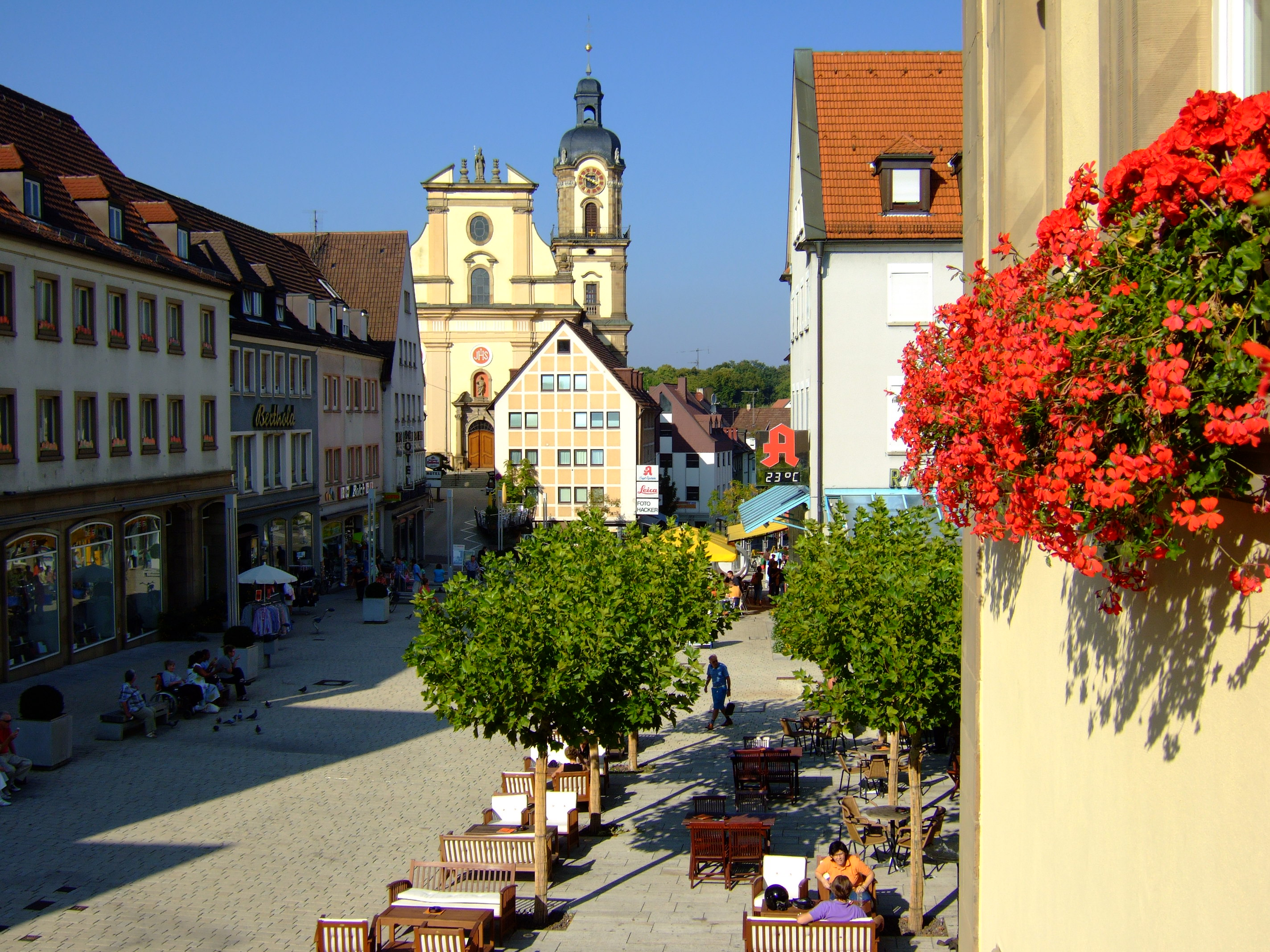 Car-free zone on the Market square and the Main street "Marktstraße" in the City Neckarsulm/Germany